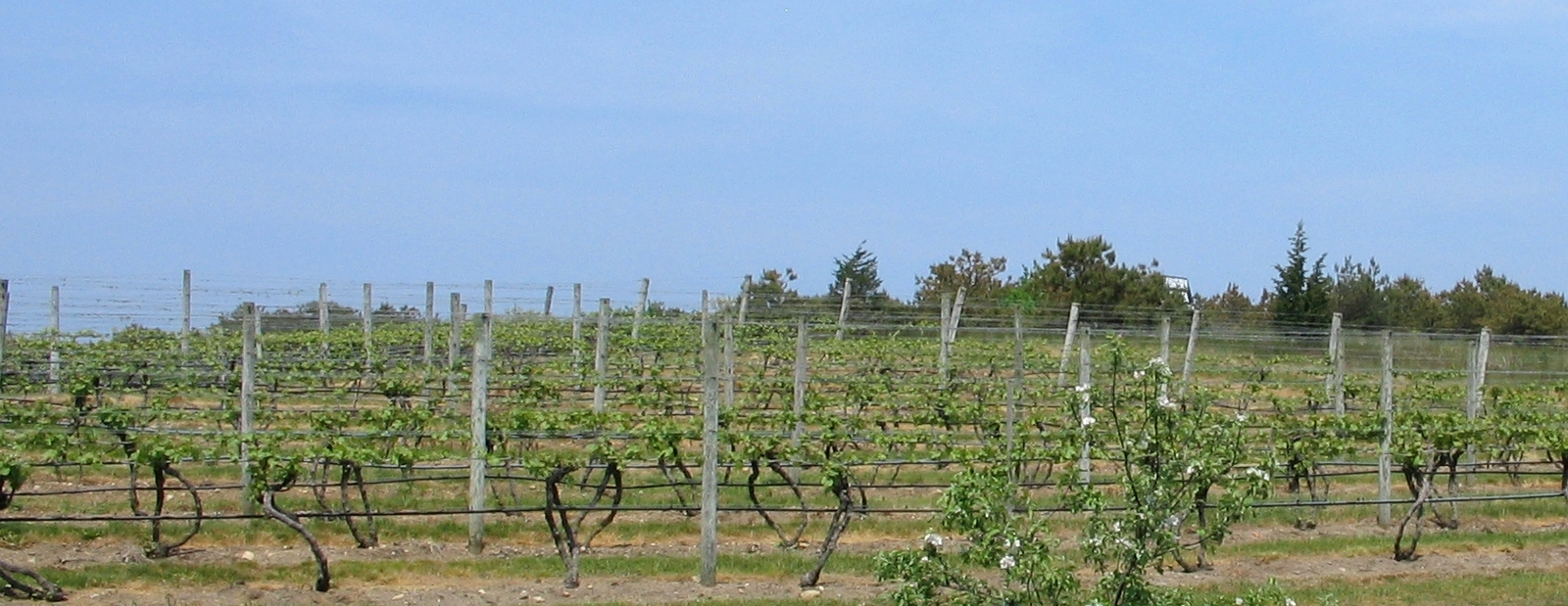 A vineyard in Truro. Photo taken on May 30, 2006 and uploaded by the author.